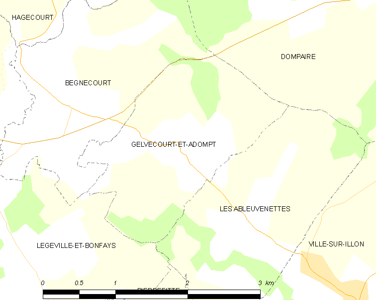 Map of French municipality Gelvécourt-et-Adompt